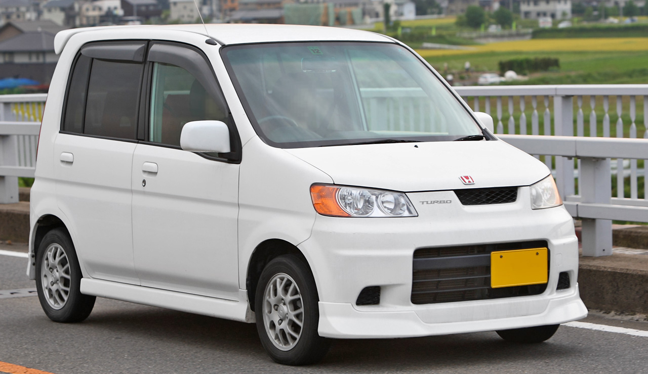 Honda Life Dunk ( JB3 )